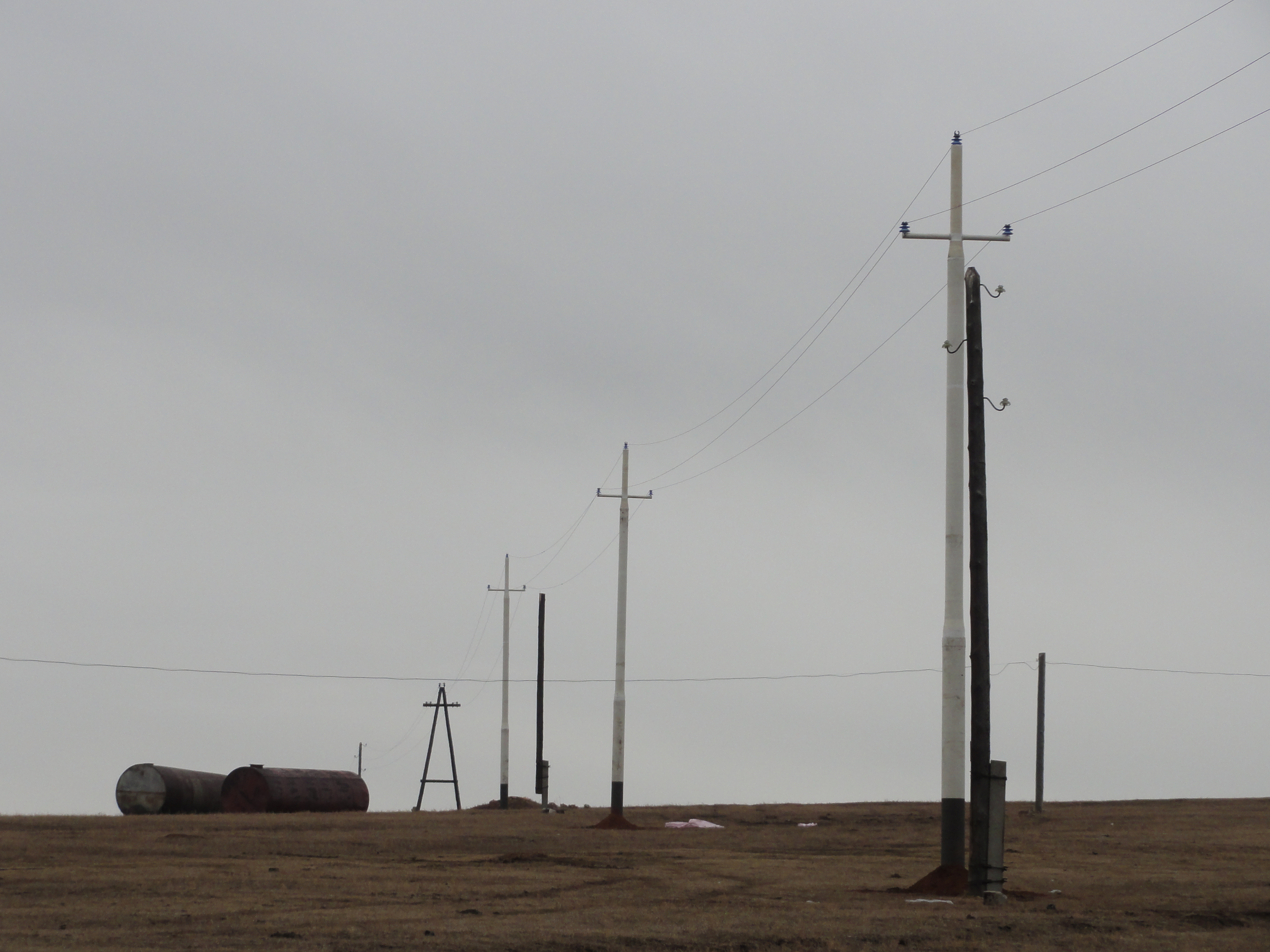 Reconstruction of power transmission lines Bahtay-Zakuley in the Irkutsk region. Outdated and worn wooden supports are replaced with modern composite material (fiberglass)